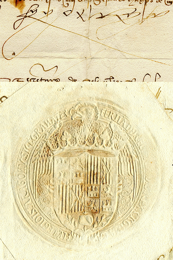 Signature and Seal of King Ferdinand II of Aragon, 1506